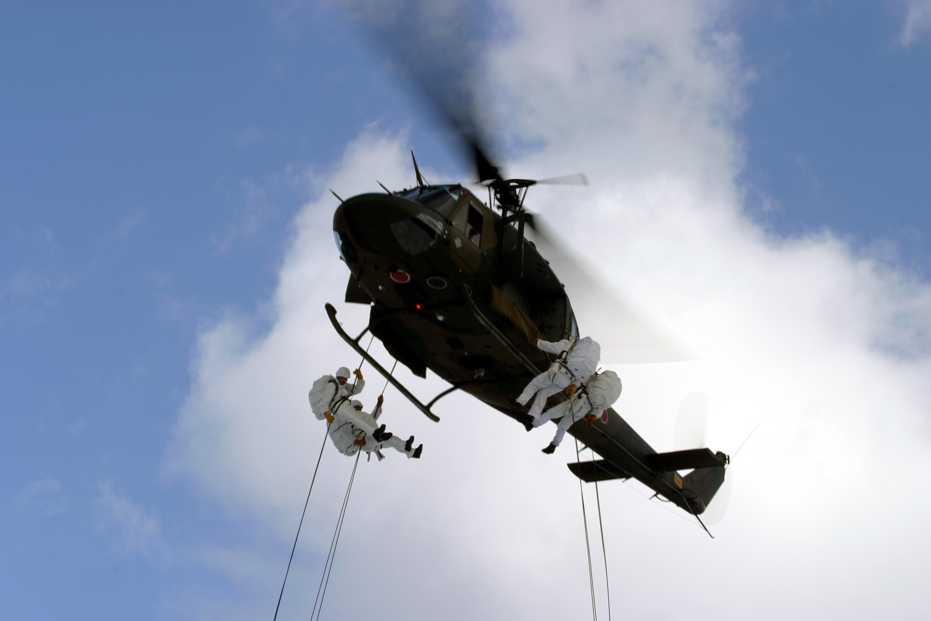 Sendai, Japan (Feb. 10, 2004) – Japanese Ground Self Defense Force Rangers assigned to Intelligence Platoon, 20th Infantry Regiment, conduct a rappelling demonstration from a UH-1 Huey helicopter in the Ojojibara maneuver area located in Sendai, Japan, during exercise Forest Light 2004. The exercise is a bi-lateral training exercise between the United States Marine Corps and the Japanese Ground Self Defense Forces. U.S. Marine Corps photo by Lance Cpl. James J. Vooris. (RELEASED)